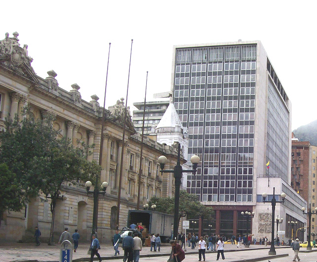 Building of Bank of the Republic on Jimenez Avenue, Downtown Bogota